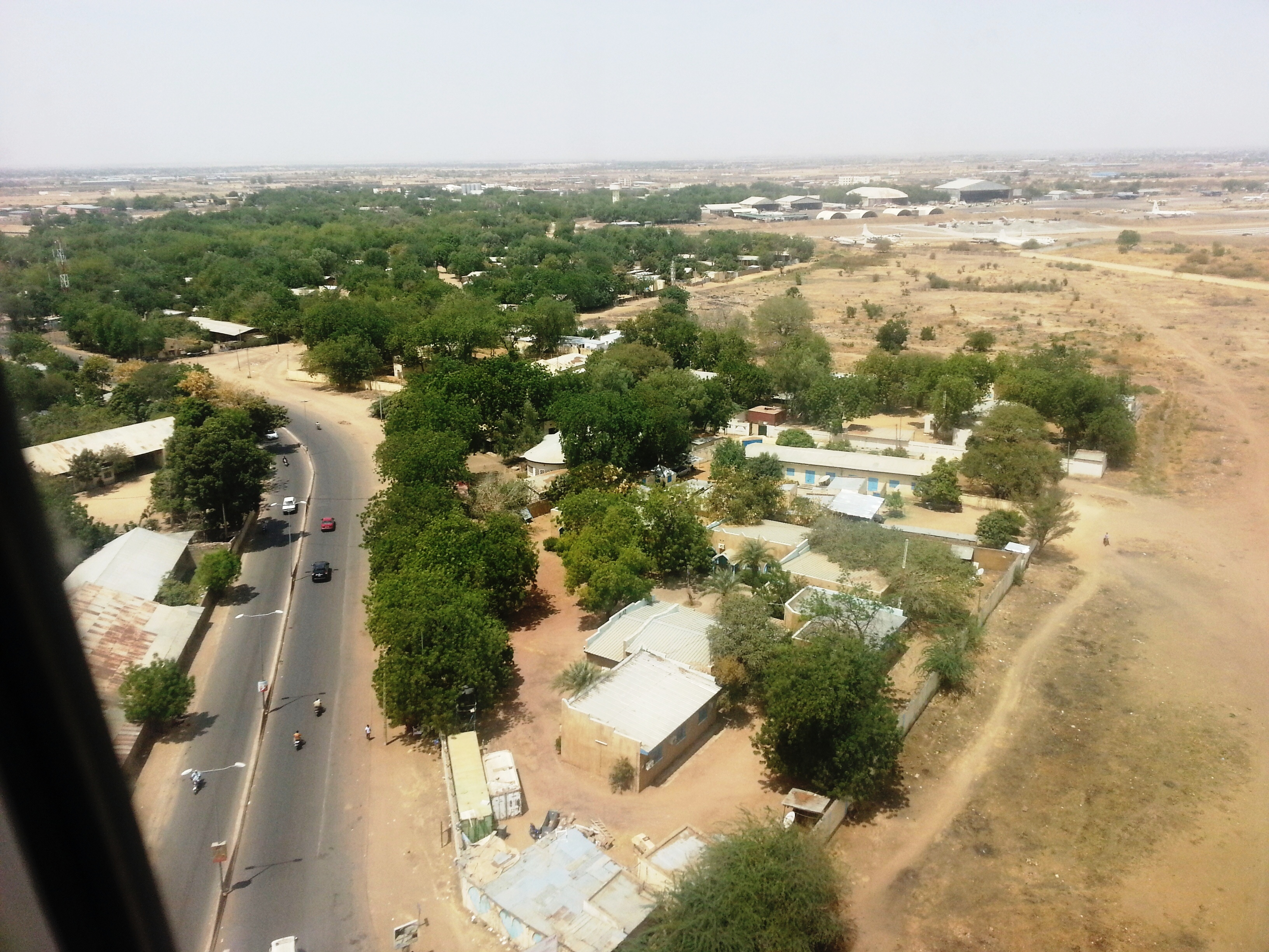 Landing at Hassan Djammous airport, N'Djamena International Airport, Chad